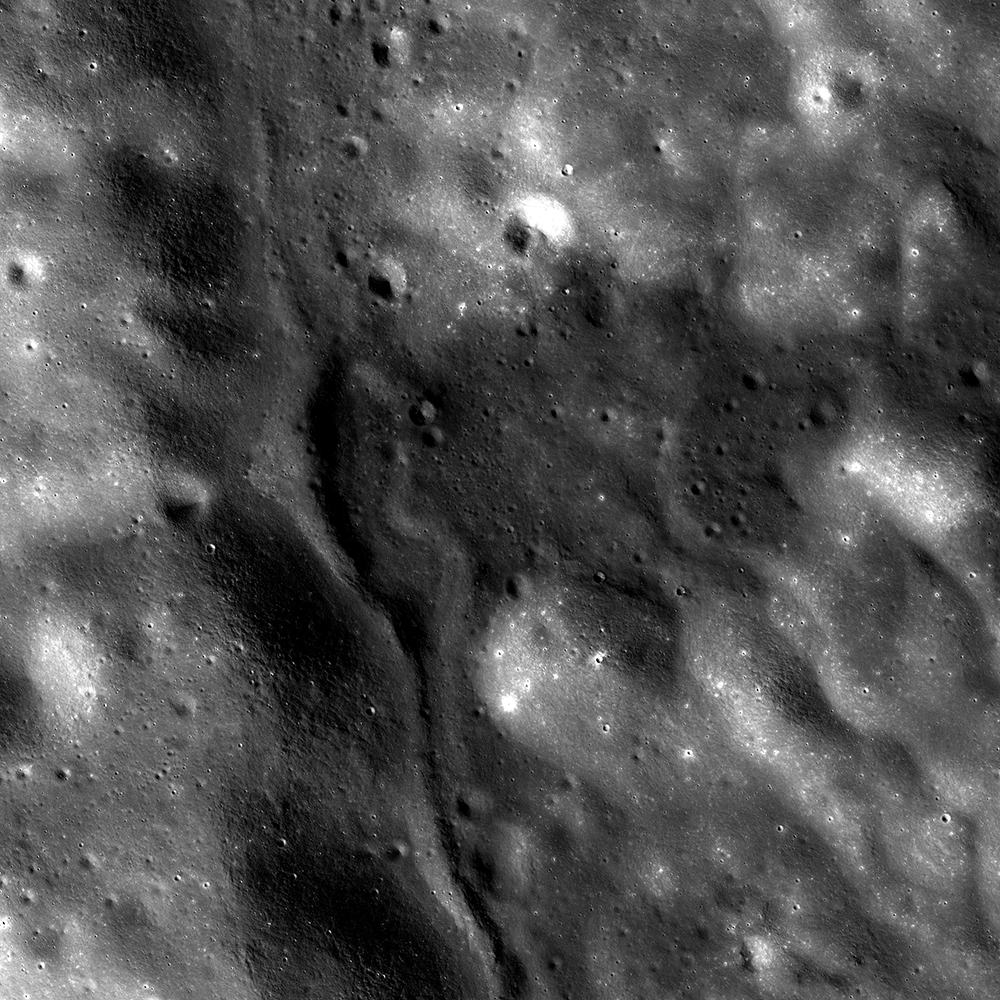 Irregular depression at the head of a floor fracture skirting the western floor of Lavoisier crater. Low reflectance material, thought to be pyroclastics, appears to have flowed East into nearby parts of the crater floor. LROC NAC mosaic M105055584LR, image width is ~15 km (9 miles), North is up [NASA/GSFC/Arizona State University].